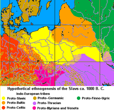 Hypothetical ethnogenesis of the Slavs ca. 1000 B. C.